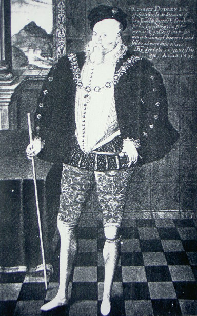 Robert Dudley, Earl of Leicester, with goose belly and knee breeches, painting by or after William Segar